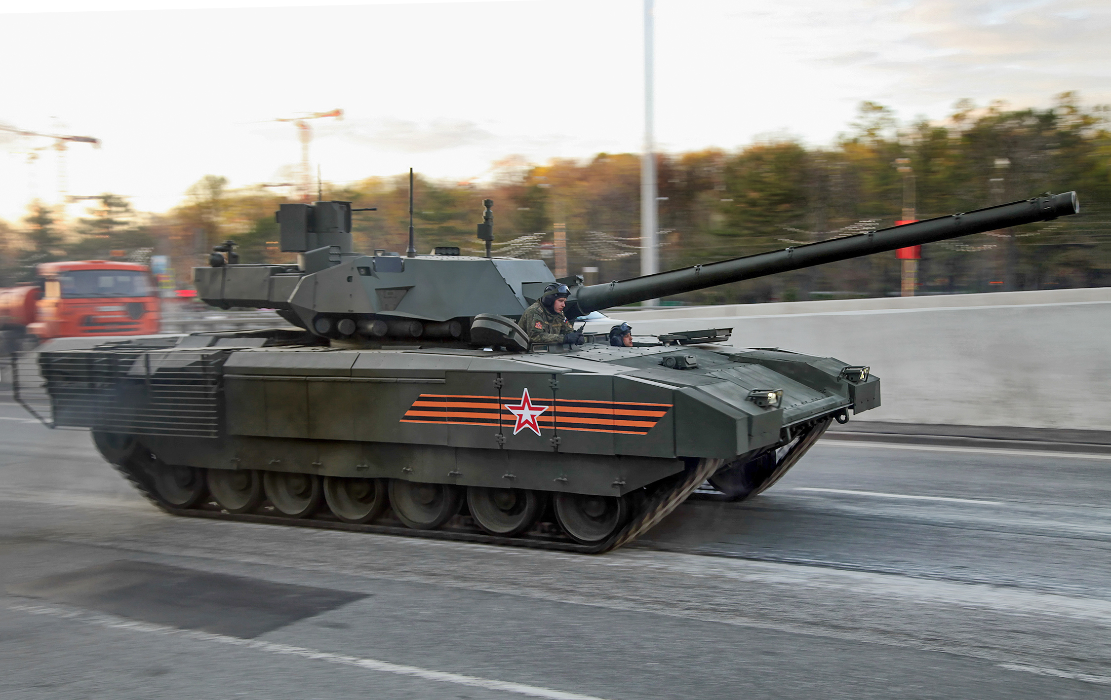 Main battle tank T-14 object 148 Armata